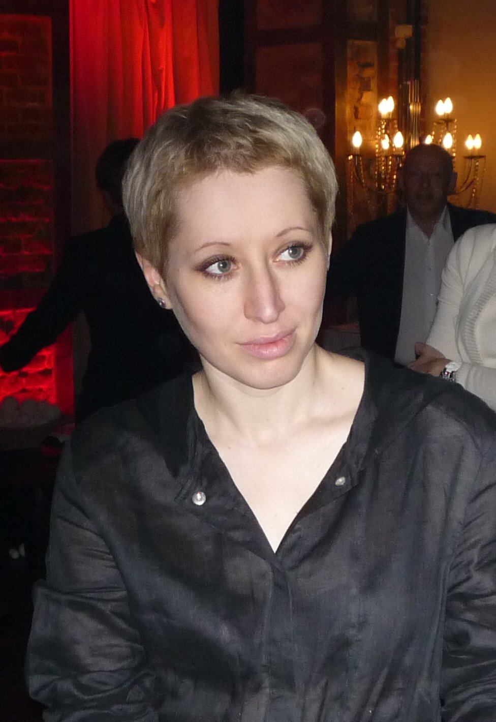 Linor Goralik, russian journalist and writer